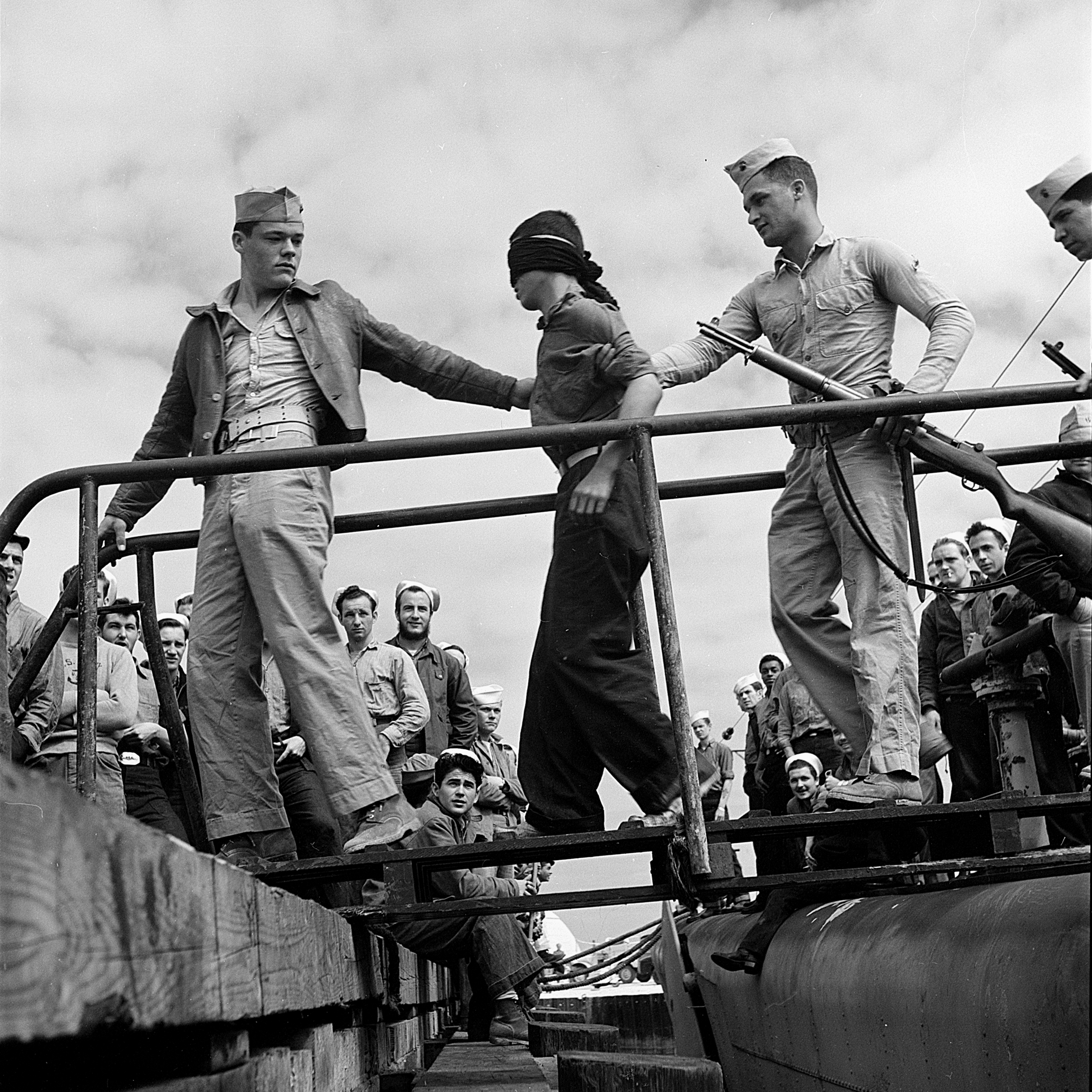 Marines unloading Japanese POW from a submarine returned from war patrol. Ca. May 1945. Lt. Comdr. Horace Bristol. (Navy) Exact Date Shot Unknown NARA FILE #: 080-G-468228 WAR & CONFLICT BOOK #: 1306